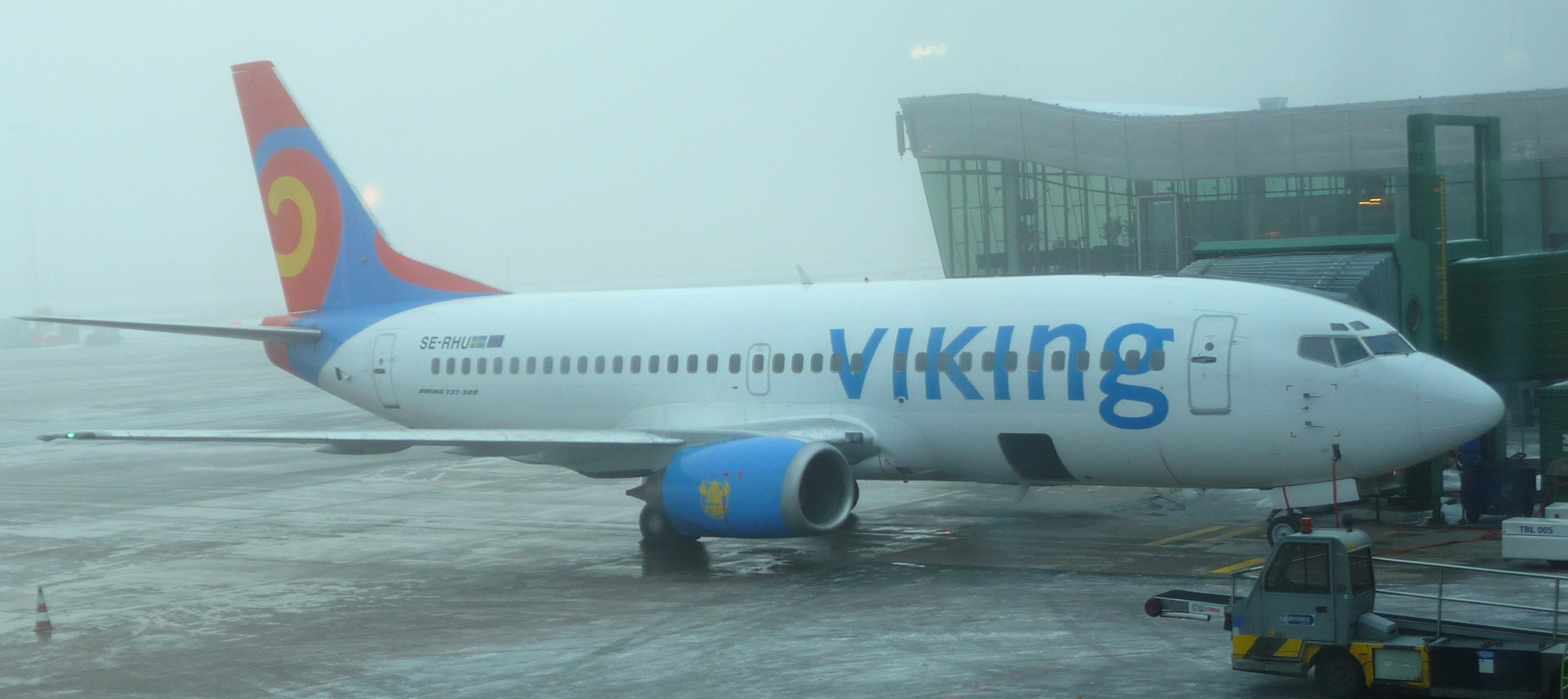 Viking Airlines aircraft at Landvetter, Sweden, about to leave for Erbiil, Iraq